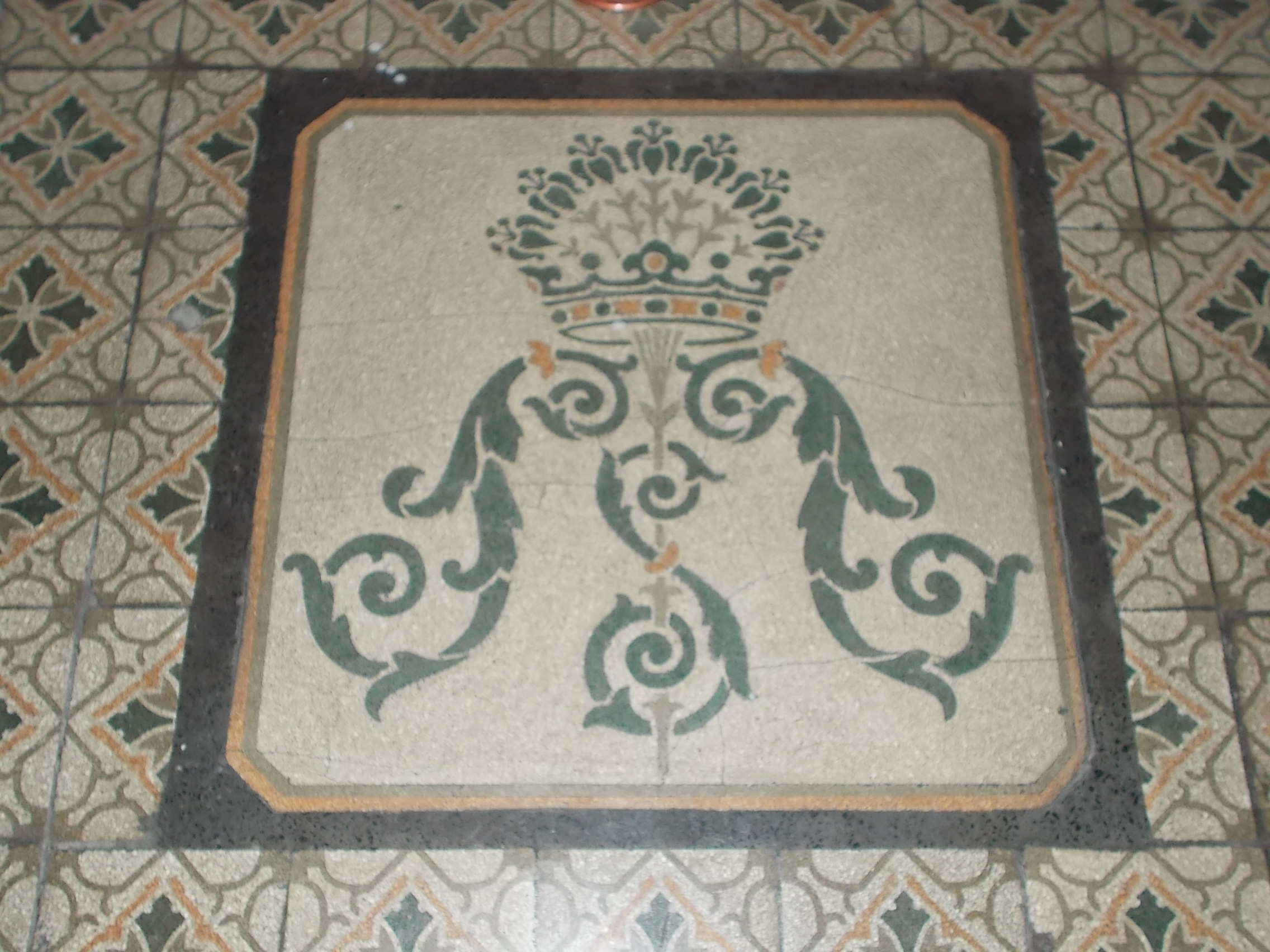 Servite Church, sanctuary floor detail. - Szervita Sq., Budapest District V, Hungary.